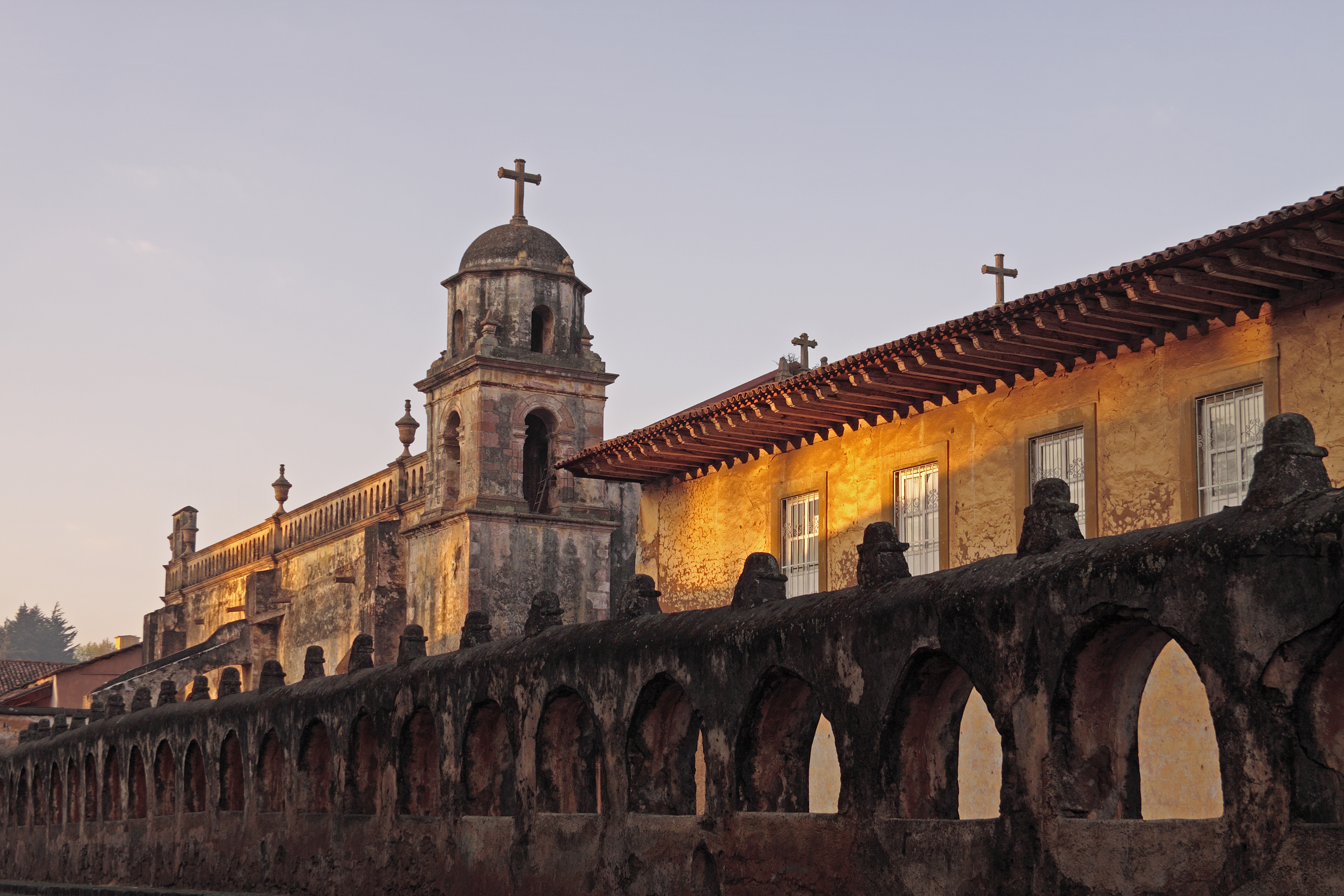 El Sagrario Church at Pátzcuaro, Micoacán. Construction started in 1693 and ended two centuries later. As a result, it is a mixture of arquitectural styles.